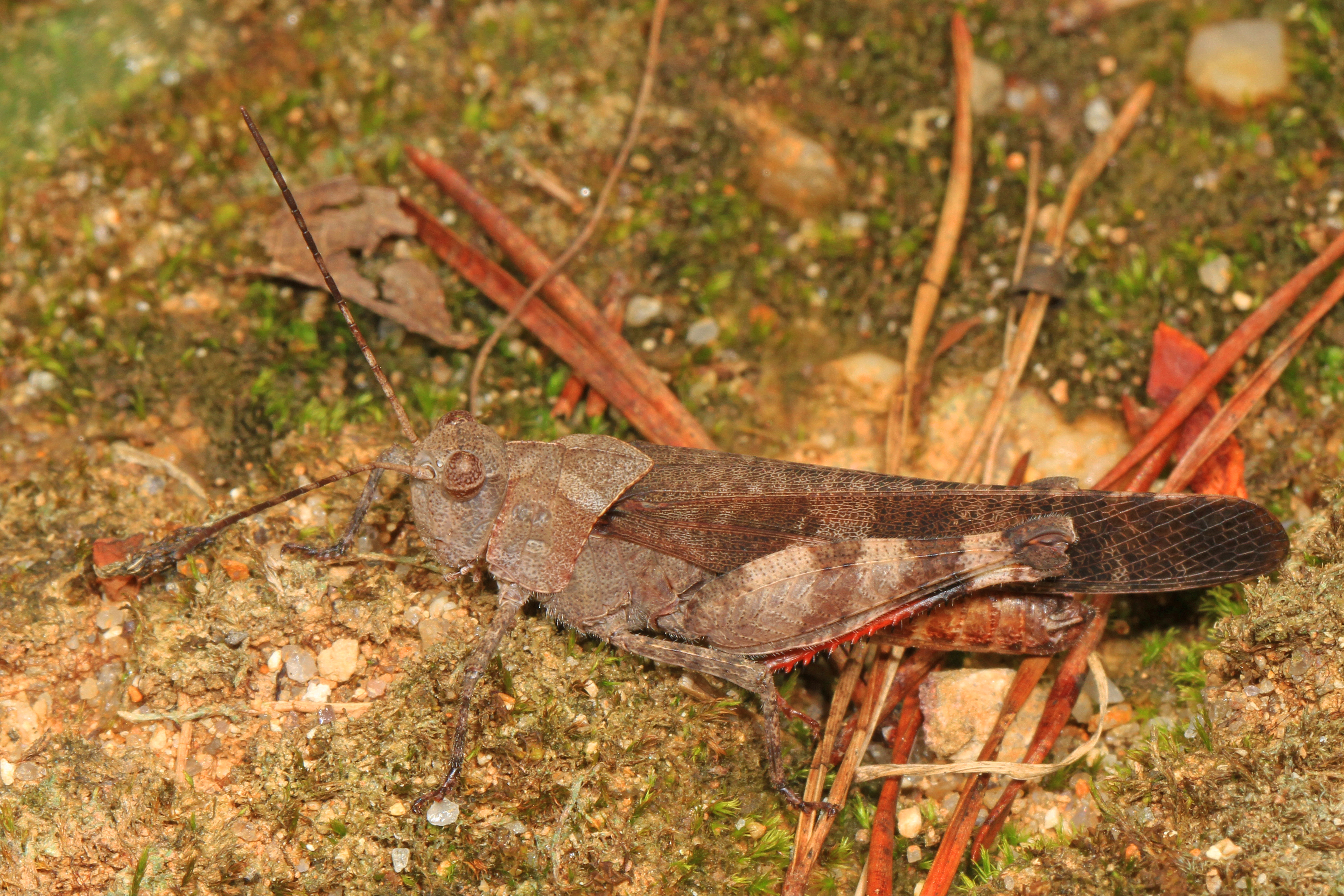 Boll's Grasshopper - Spharagemon bolli, Prince William Forest Park, Triangle, Virginia